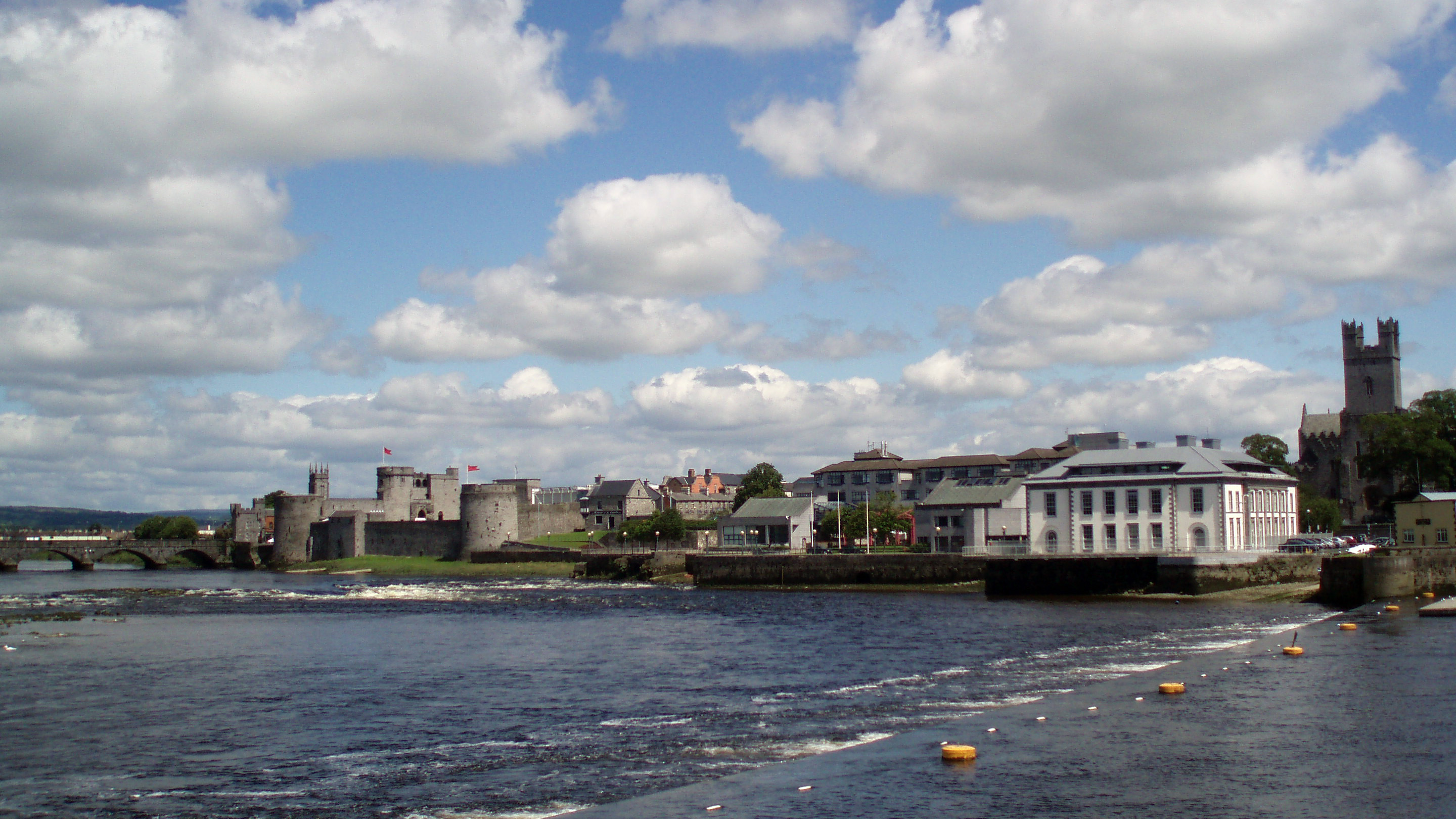 Limerick, looking northeast up the River Shannon